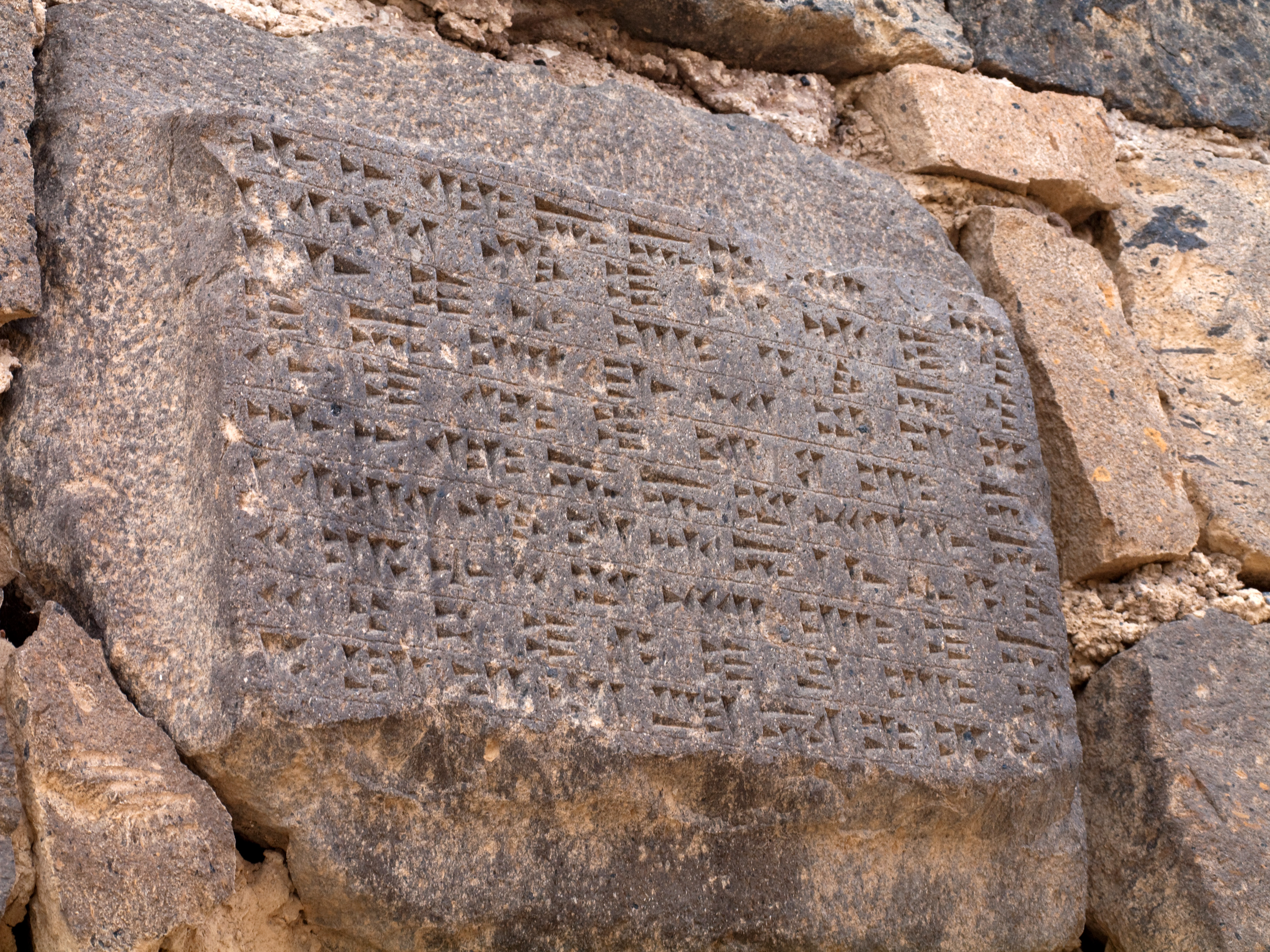 Armenia - Day 1 - 18 September 2010. Embedded in the city wall of Erebuni, the oldest site on the outskirts of the city of Yerevan. Thought to be from 782 BC, the Urartu people - an Iron Age people.